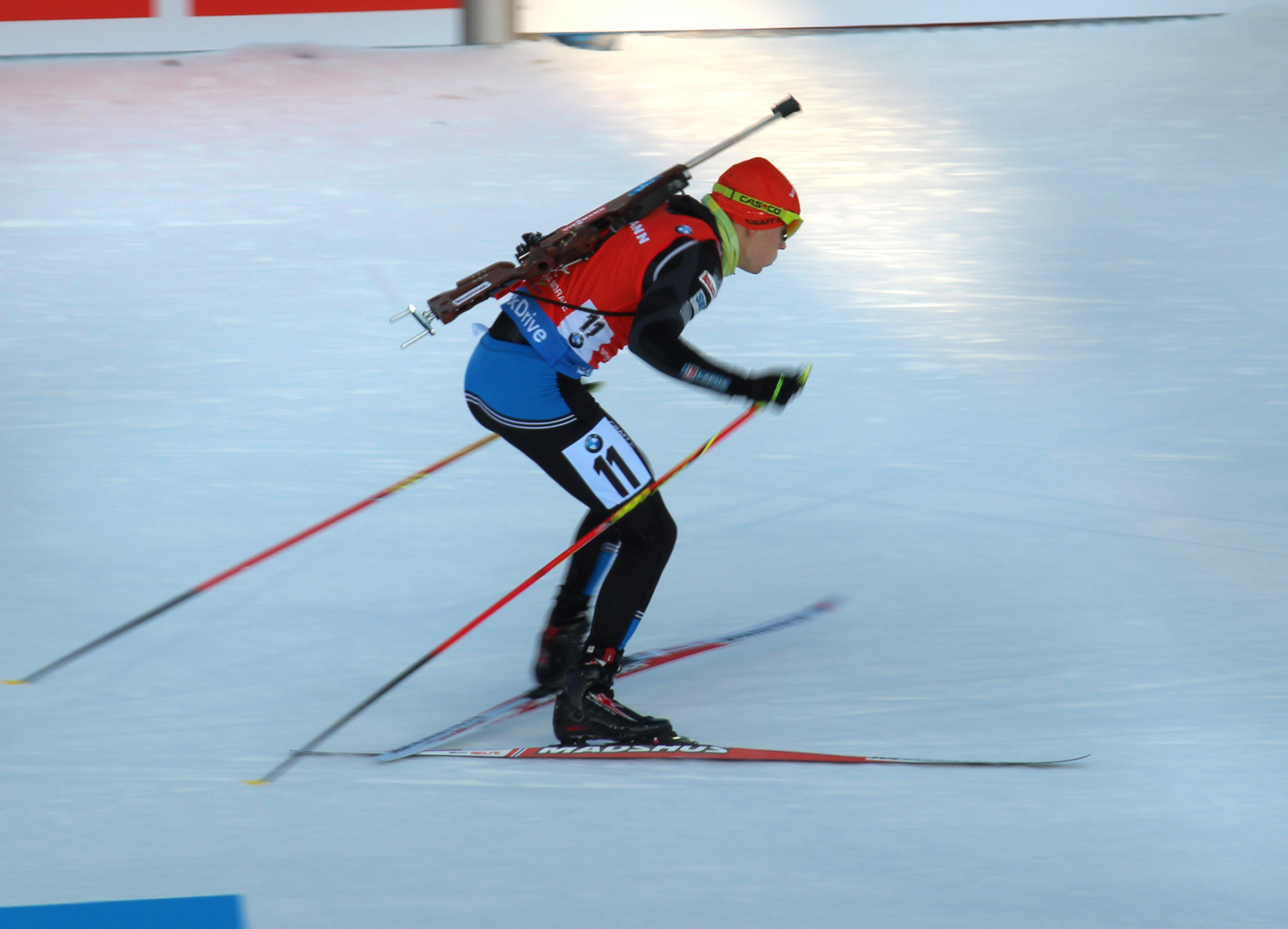 Ahti Toivanen at Biathlon World Cup 2015 in Nové Město, Czech Republic – sprint men